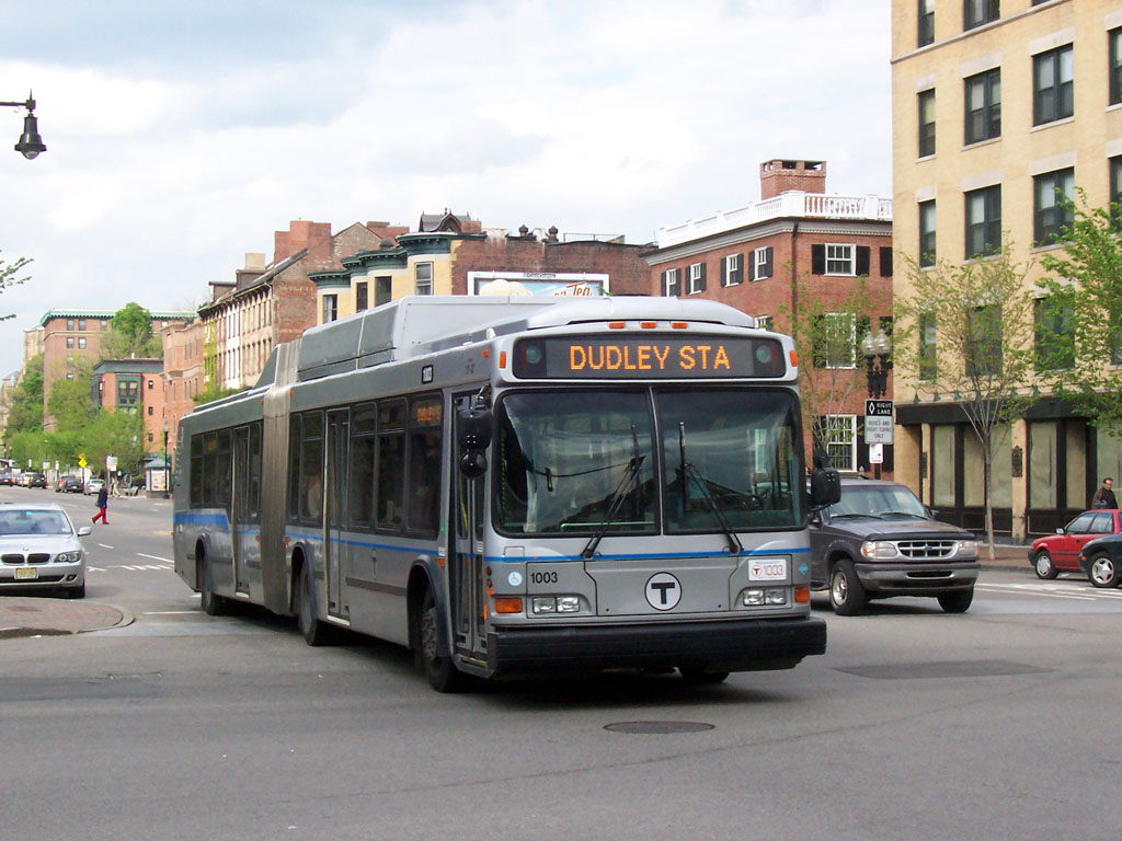 MBTA Neoplan AN460LF CNG #1003 on the Washington Street Silver Line.